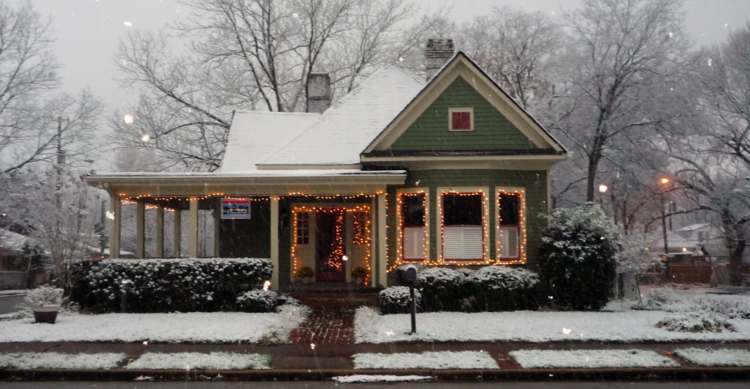 Photo of a renovated Highland Park Queen Anne Bungalow in December, 2009.